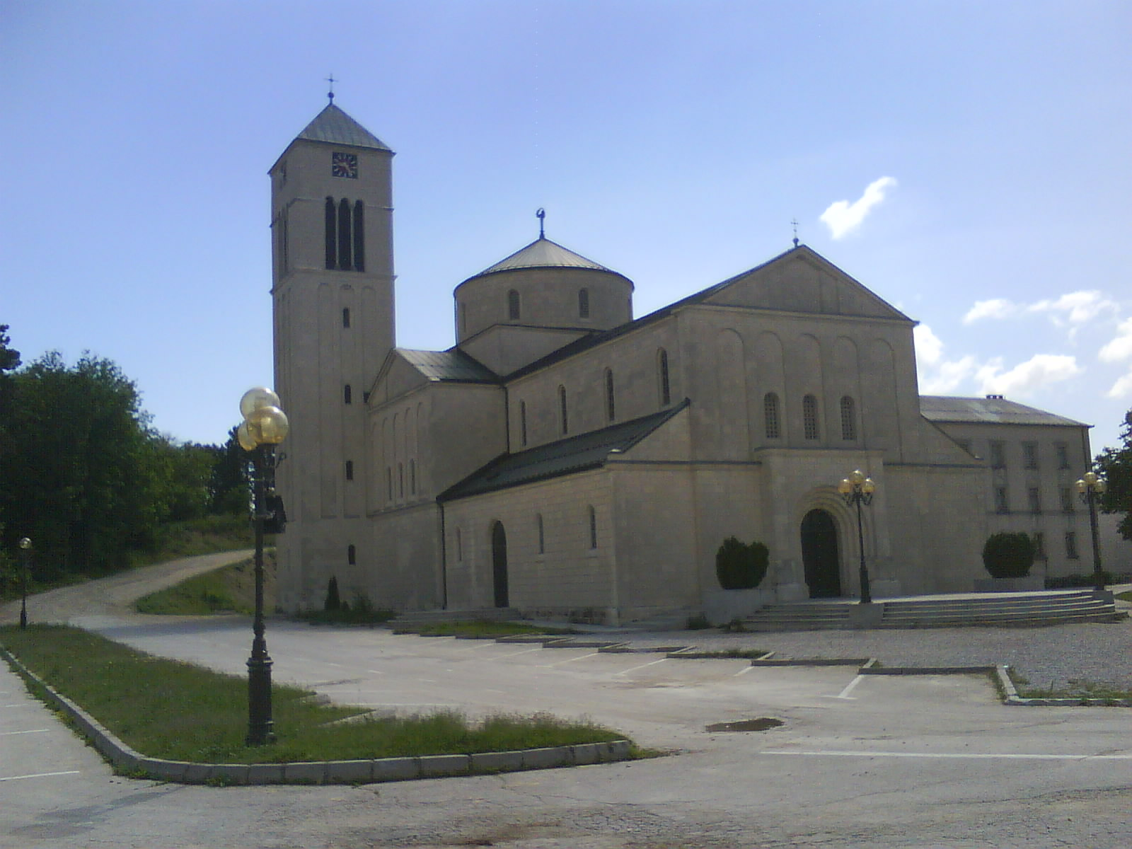 Roman Catholic church of St. Nikola Tavelić